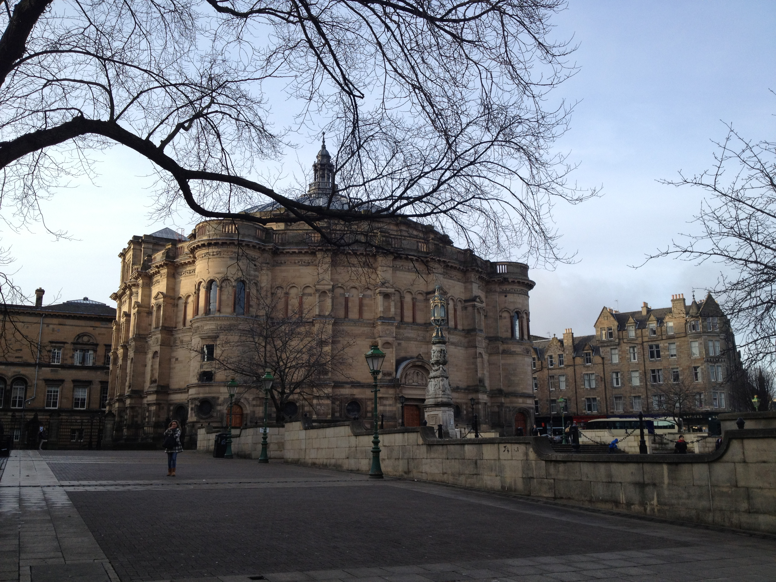 McEwan Hall, University of Edinburgh, UK